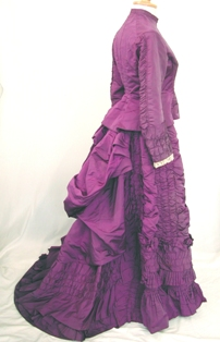 1870s dress, purple silk bodice and skirt with bustle back. From the historic costume collections of Southend Museums Service.